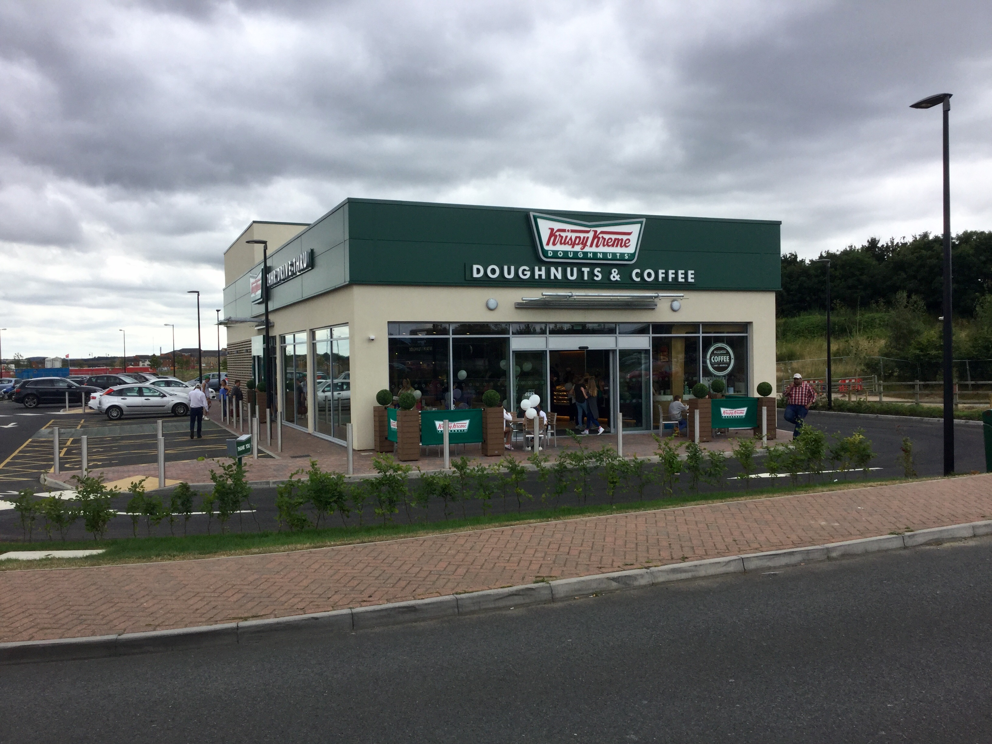 The new Krispy Kreme restaurant in Hampton, Peterborough in the United Kingdom which opened in July 2016.